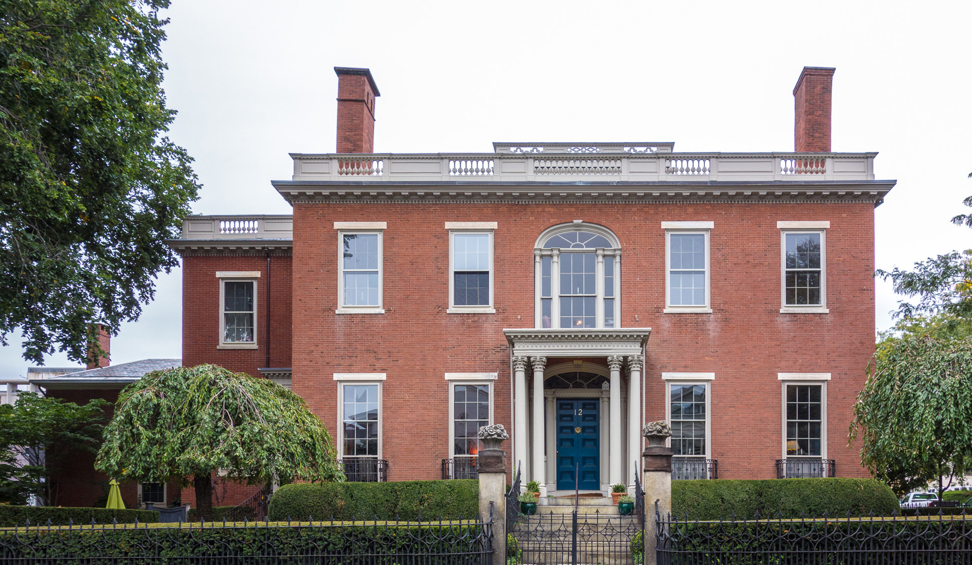 Candace Allen House — 12 Benevolent Street, Providence, Providence County, Rhode Island.